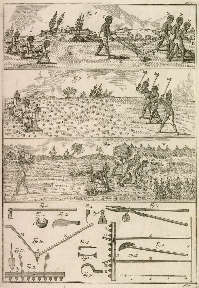 José Mariano da Conceição Velloso, in O Fazendeiro do Brasil, (Lisbon, 1806), vol. 2, plate 1, foldout following p. 341. ("Preparing the soil to cultivate an indigo field and then harvest it") shows various phases of the planting and harvesting of the Indigo plant: fig. 1 (top), depicts preparation of the soil for planting, using a rake; fig. 2 (center) shows the use of hoes to make the holes into which the indigo seed is planted; fig. 3, depicts harvesting of the plant, gathering it into bundles, and carrying it to the tanks or cisterns for further processing. The bottom panel shows a variety of tools and implements used in indigo. The plate and its contents are identified in detail on pp. 332-333.